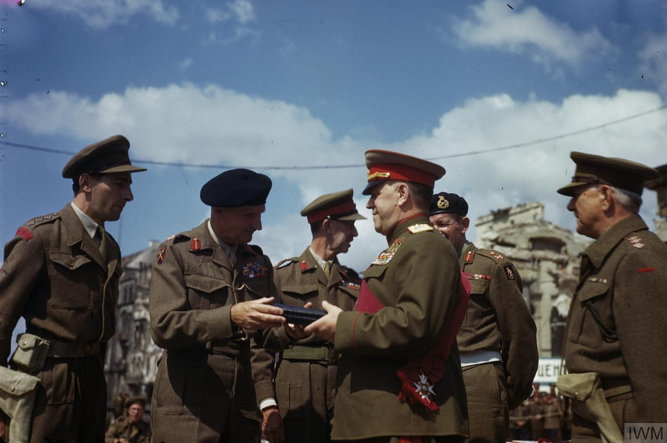 Field Marshal Montgomery Decorates Russian Generals at the Brandenburg Gate in Berlin, Germany, 12 July 1945 The Deputy Supreme Commander in Chief of the Red Army, Marshal G Zhukov is invested as a Knight Grand Cross of the Order of the Bath by the Commander of the 21st Army Group, Field Marshal Sir Bernard Montgomery, watched by British Army Officers. Second from the right is Major General L O Lyne, Commander of the 7th Armoured Division. The ceremony took place at the Brandenburg Gate in Berlin and a Guard of Honour was formed by the 7th Armoured Division.